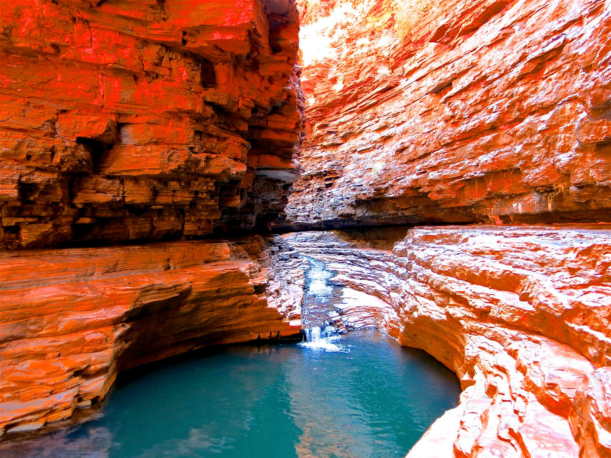 Kermit Pool in Hancock Gorge, Karijini National Park